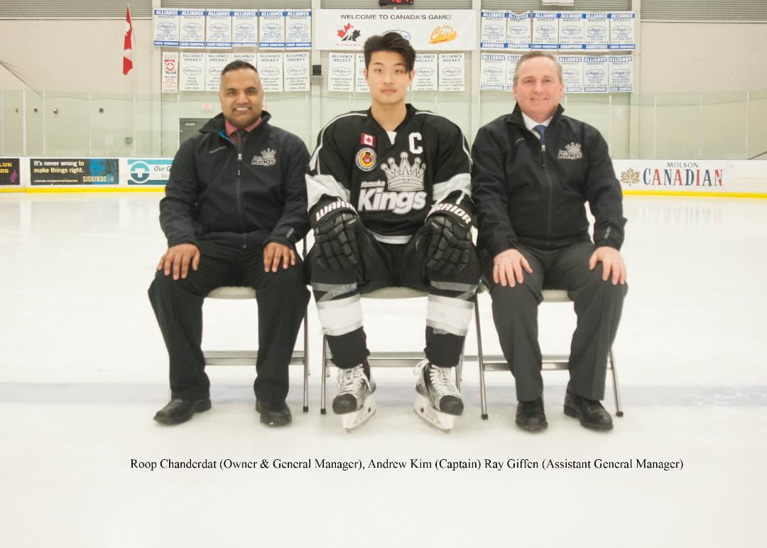 Komoka Kings 2017-2018 Captain Andrew Kim with Komoka Kings Owner/GM Roop Chanderdat (L) and AGM Ray Giffen (R)